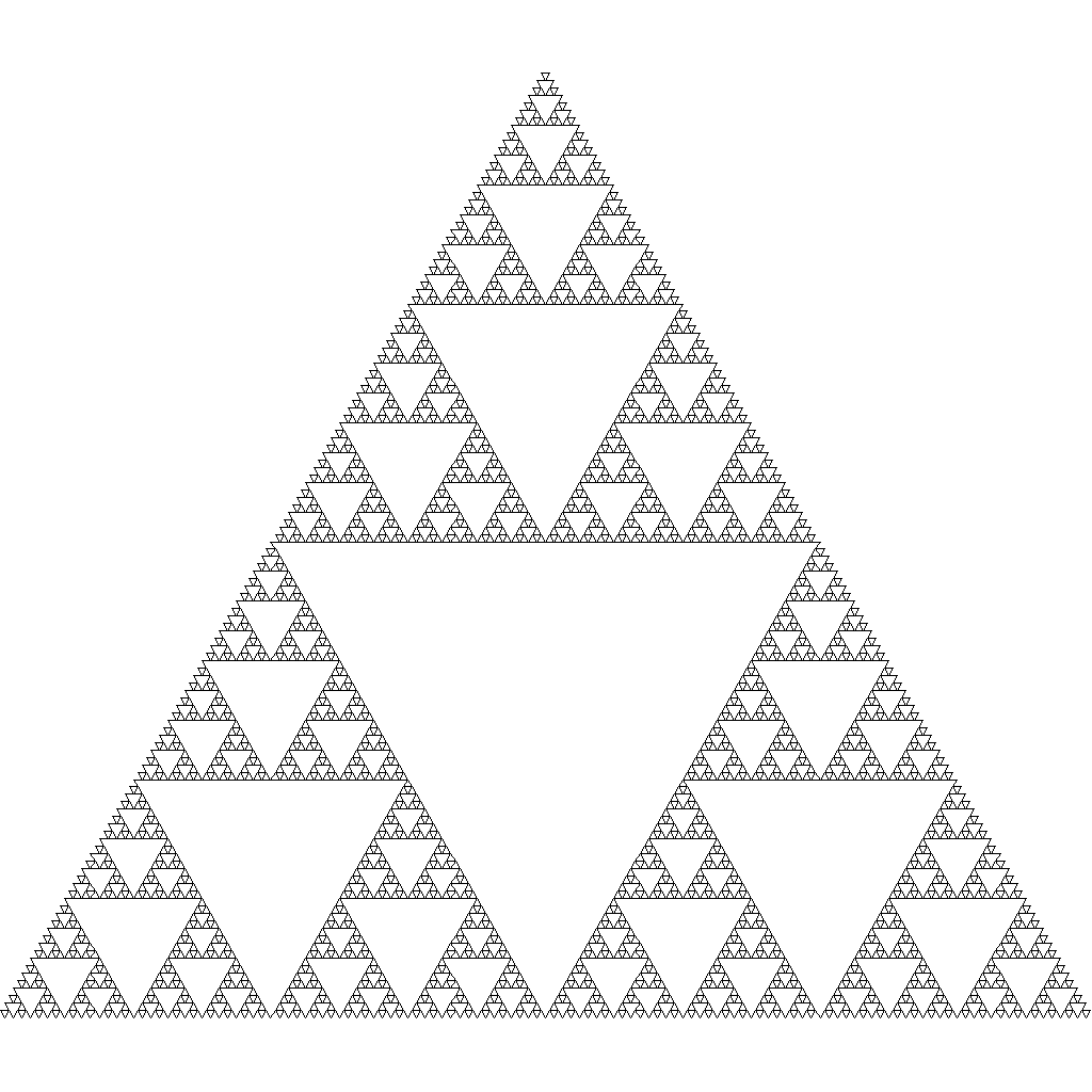 S3 Sierpinski L6 All